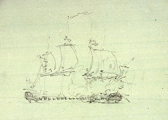 A sketch of the 1793 engagement between the British and French frigates Nymphe and Cleopatre by Nicholas Pocock